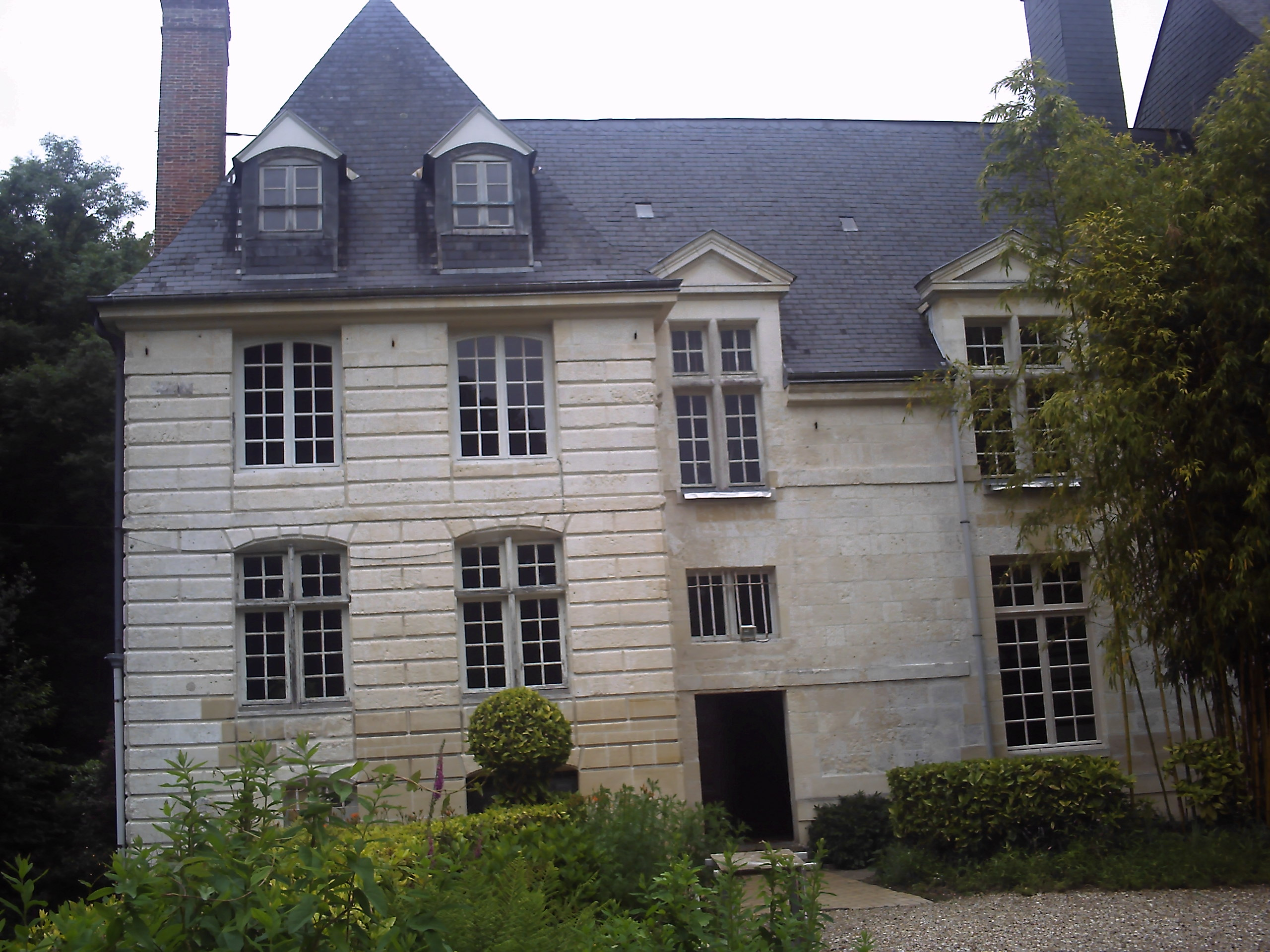 Castle of Filières in Normandy